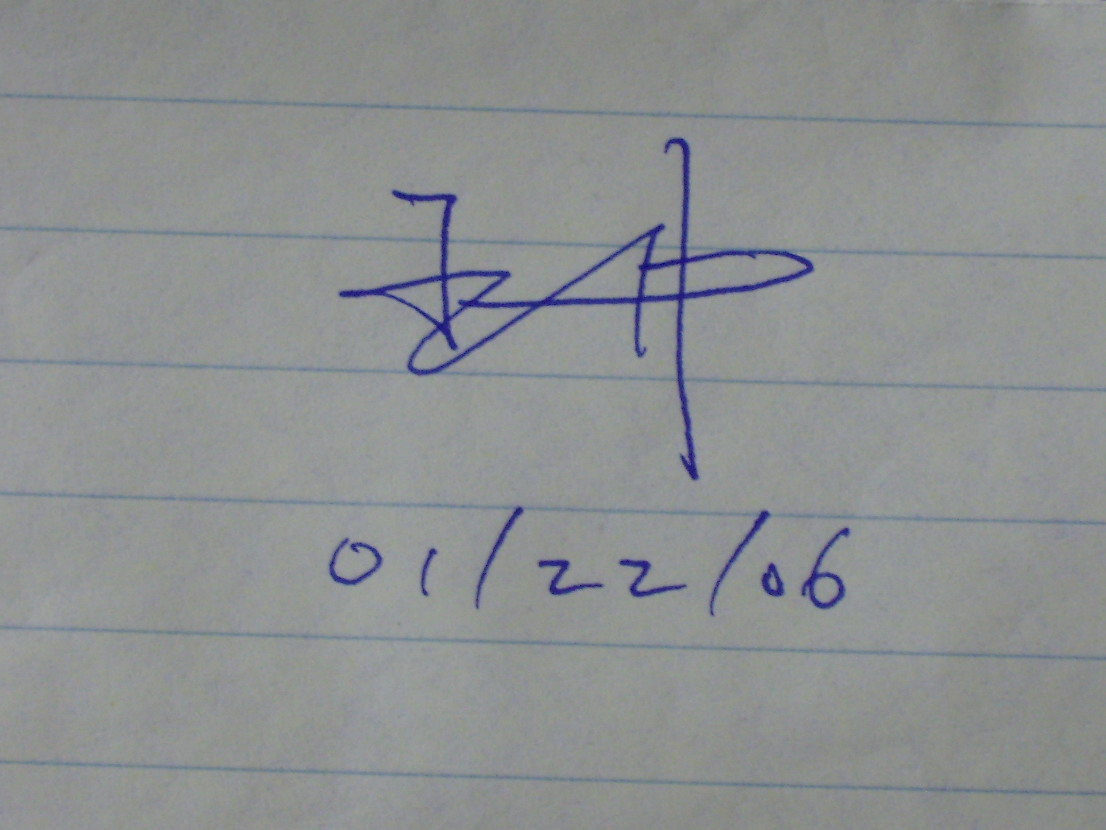 Wang Dan's signature on January 22, 2006.